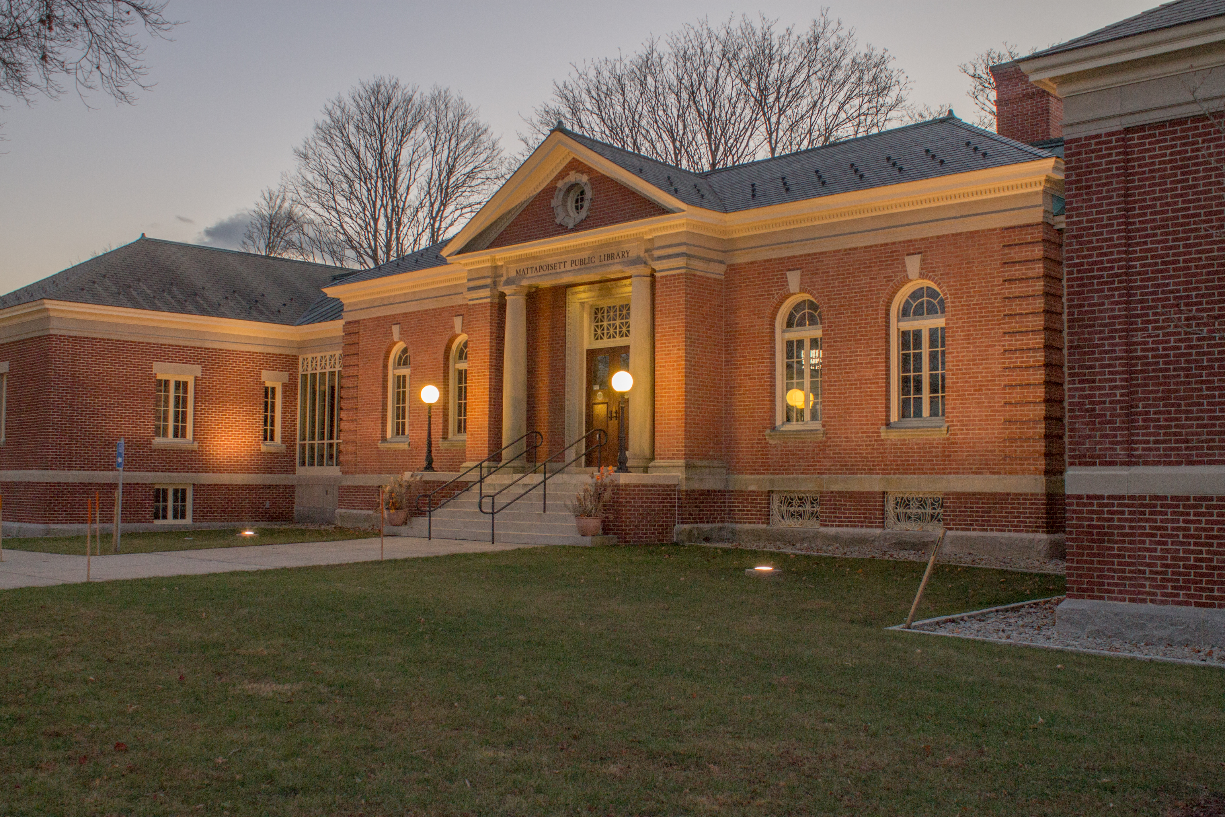 The public library located in Mattapoisett, Massachusetts.